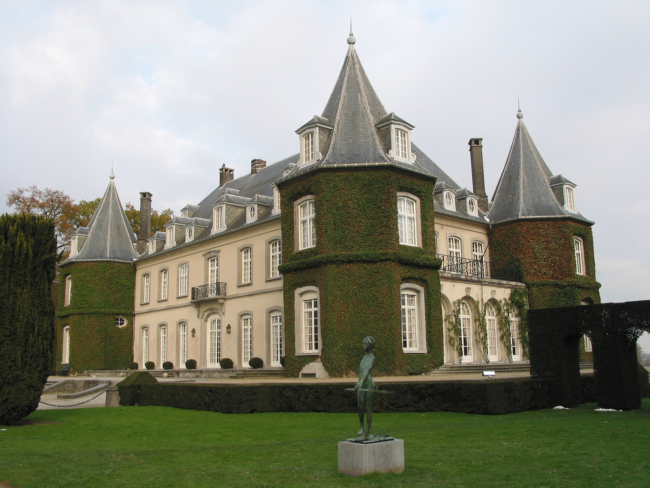 La Hulpe (Belgium), western and southern sides of the Solvay castle (1842).